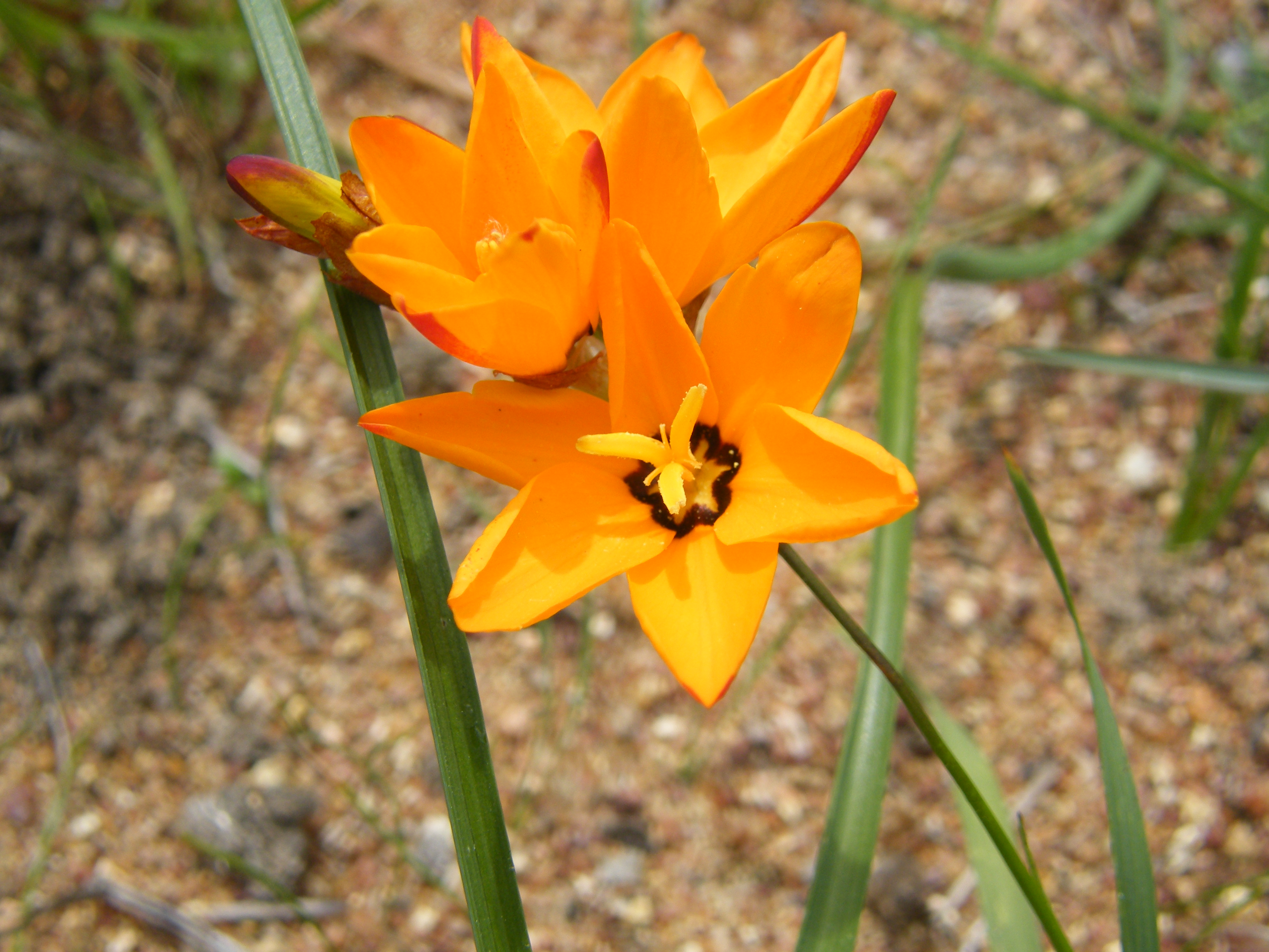 Darling Western Cape